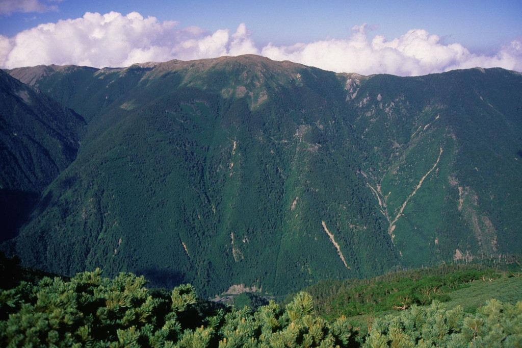 Mounts Shirogochi (Shirogochi-dake) and Kurogochi (Kurogochi-dake, aka Sasayama) as seen from from Mount Komori